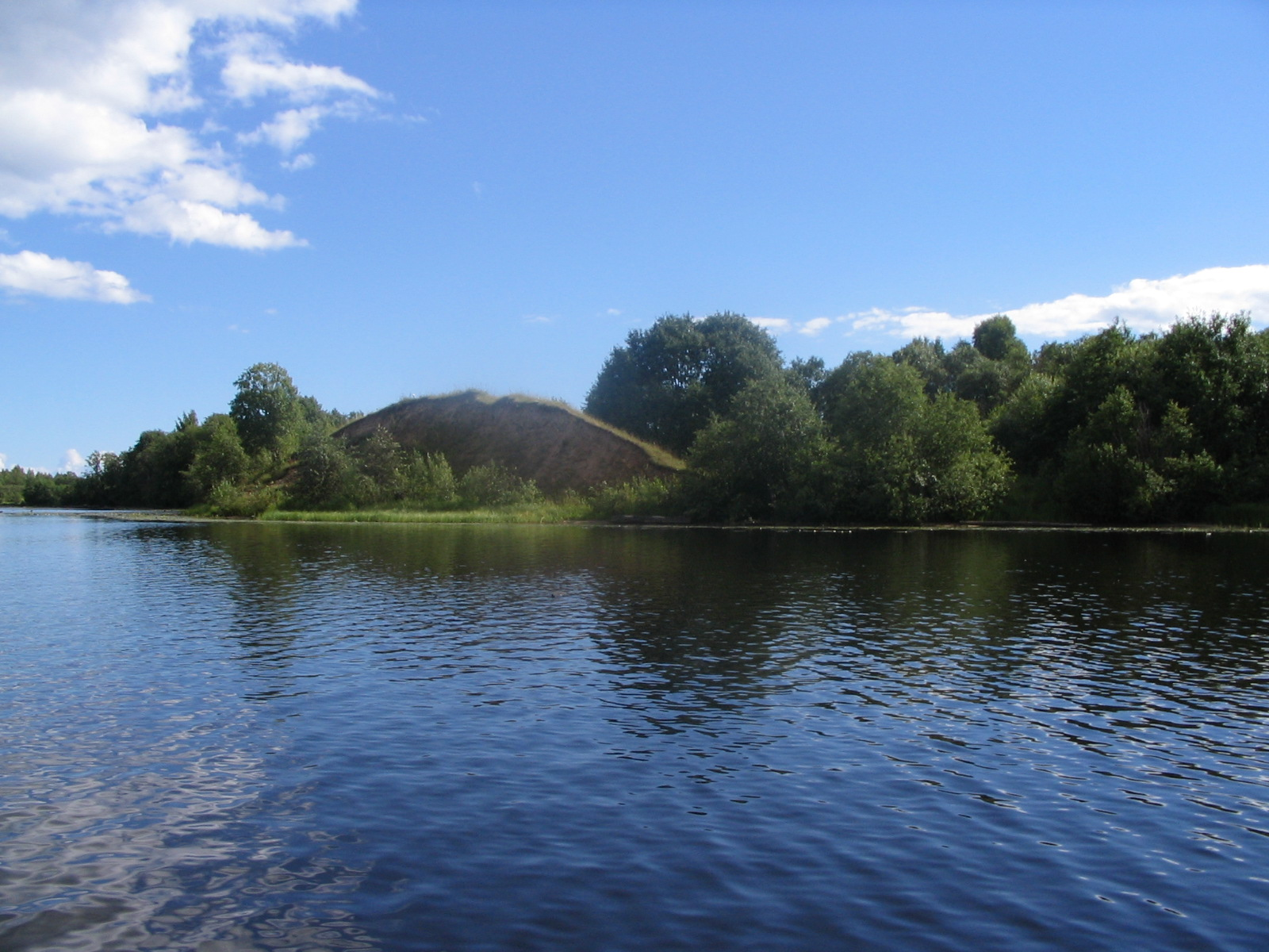 Kema River near Mezhgor